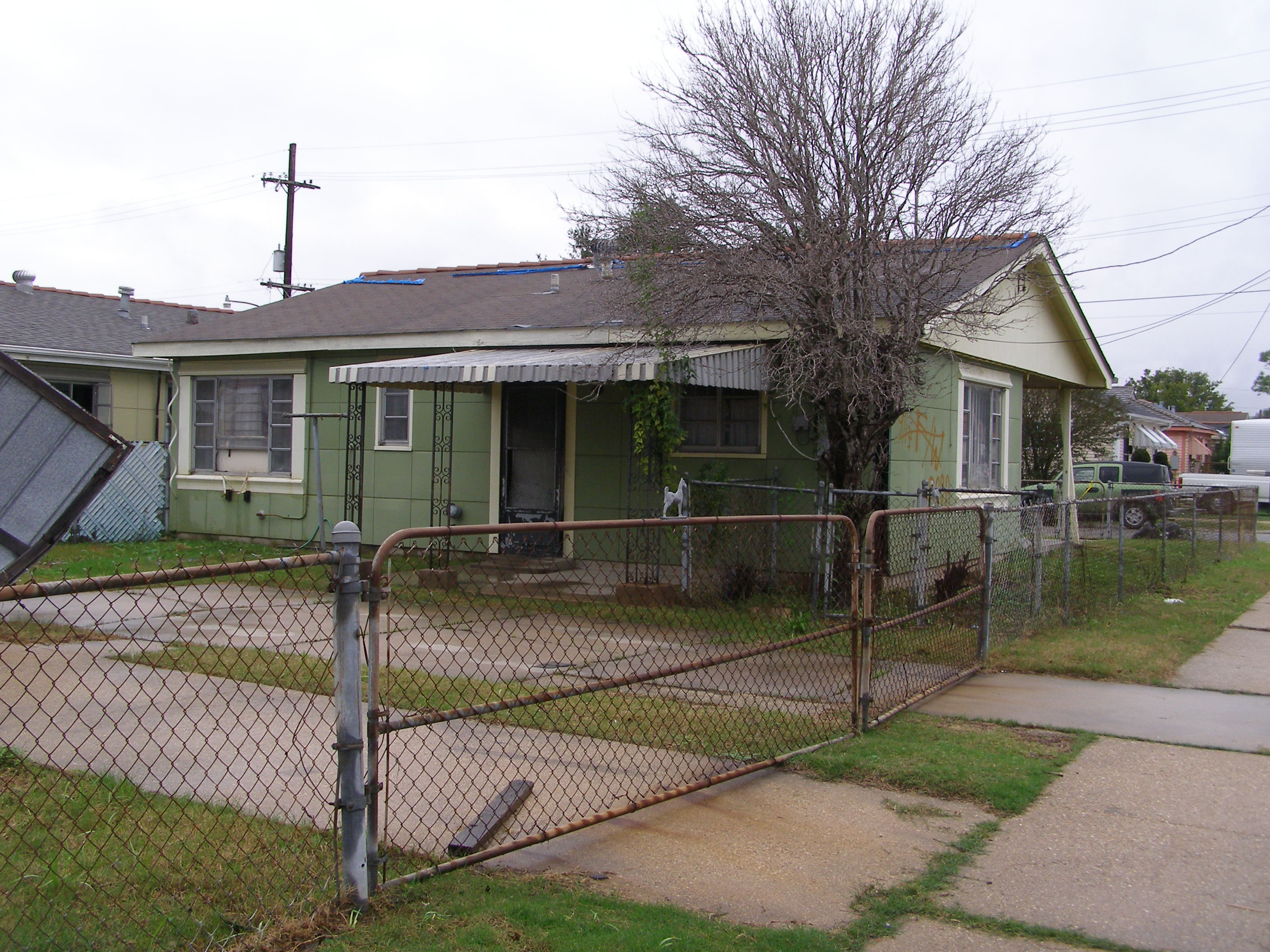 Lustron house on Livingston Street, Hollygrove section of New Orleans, area damaged by Hurricane Katrina and the associated levee failure flood.